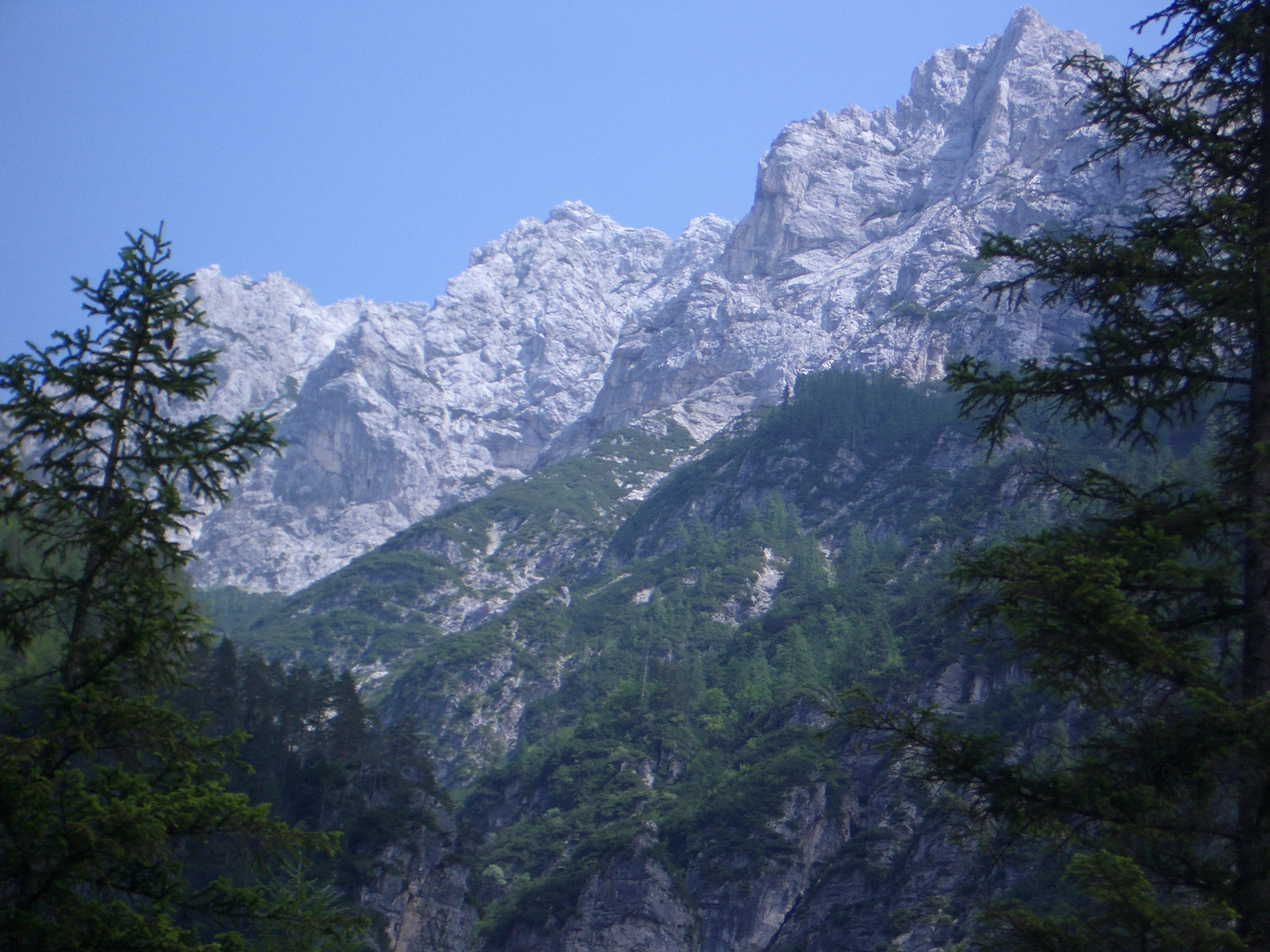 Slovenian wide angle shots uploaded in bulk. All taken near Kranjska Gora, Julian Alps in Summer 2004.